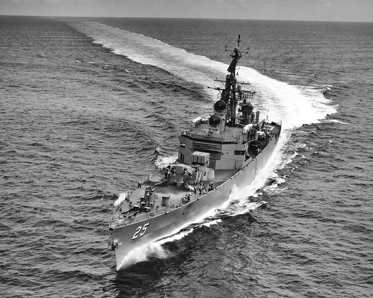 The U.S. Navy guided missile cruiser USS Bainbridge (DLGN-25) underway at sea on 20 September 1962.